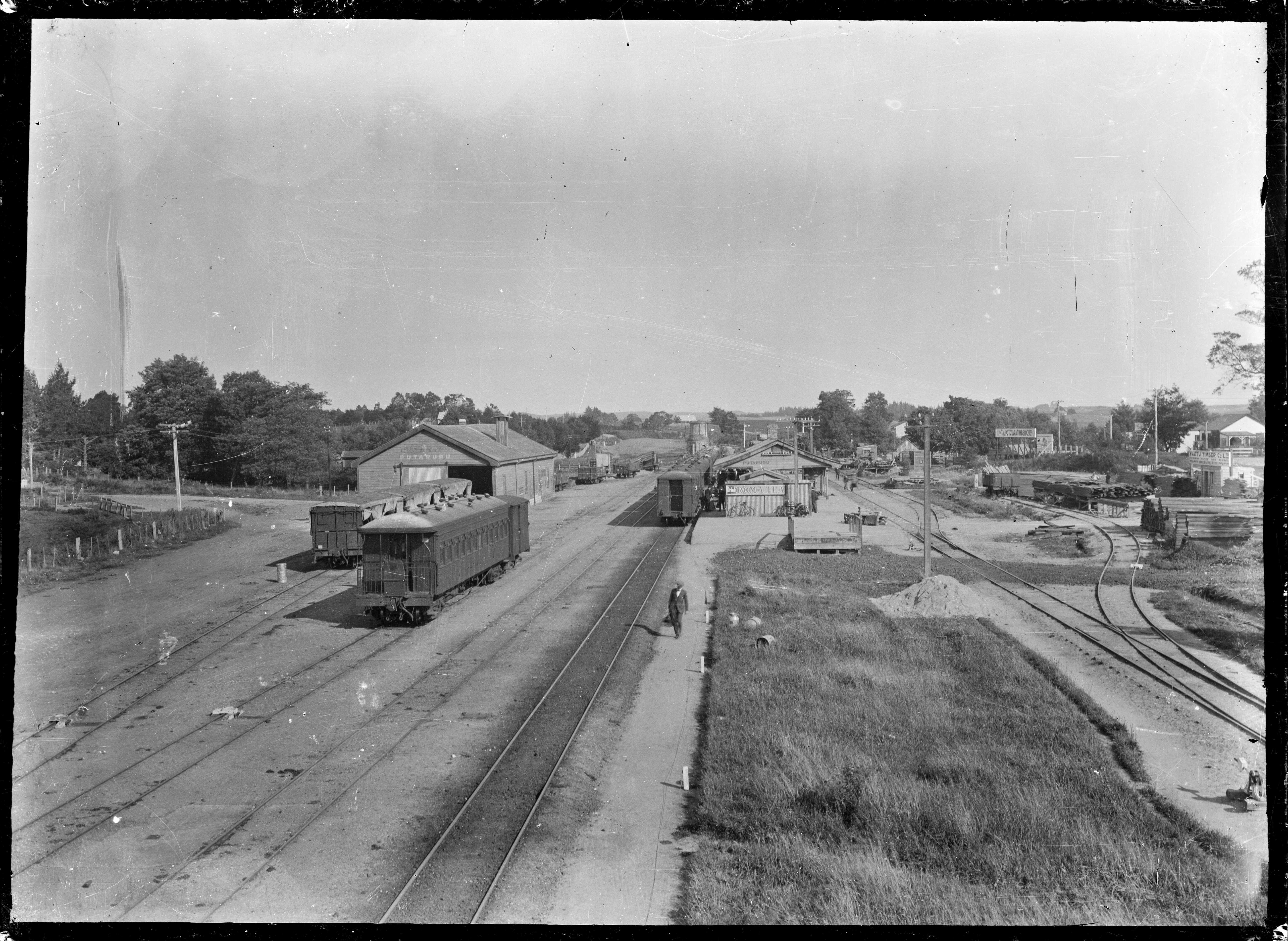 View of the Putaruru Railway Station and railway yards with the back of a train visible at the station. There are piles of sawn timber at a siding to the right of the station, where there are timber yards belonging to the Taupo Totara Timber Company, and the Waotu Timber Company. Photograph taken in February 1923 by Albert Percy Godber.